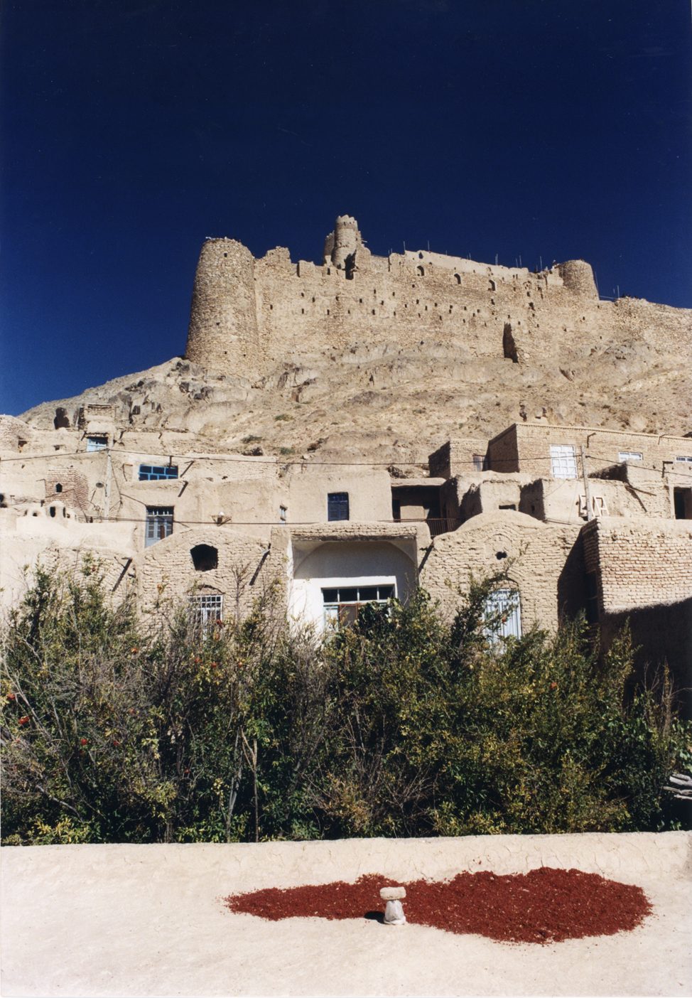 A picture of Furg citadel while on top of a house in South Khorasan Province, Iran.